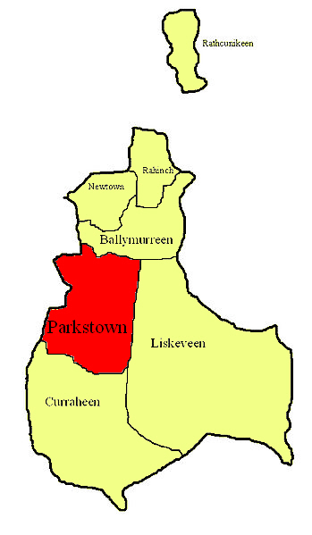 Map showing location of Parkstown townland wIthin Ballymurreen civil parish in County Tipperary